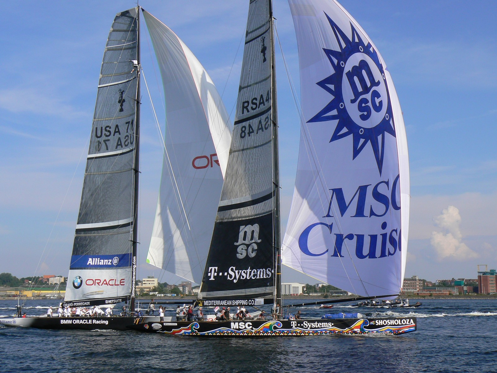 German Sailing Grand Prix Kiel 2006. Team Shosholoza + BMW Oracle Racing.